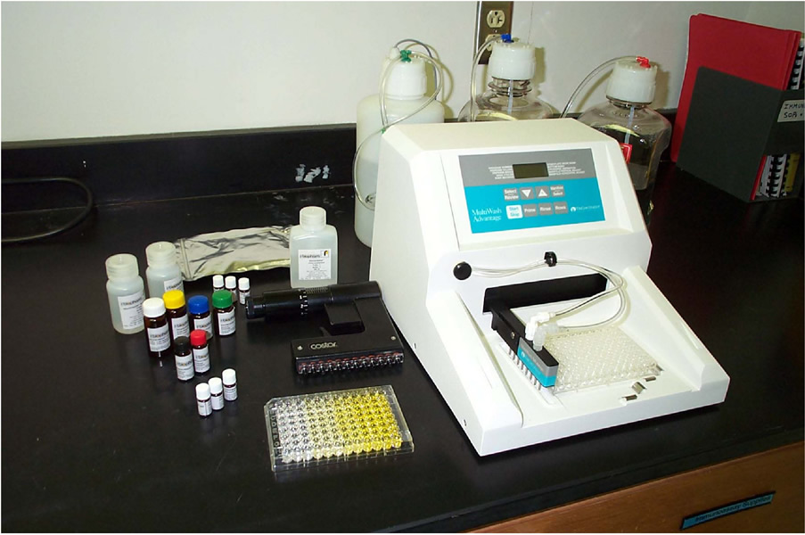 The equipment and reagents used in an Enzyme-linked Immunosorbent Assay (ELISA), a precursor of protein chips. This picture is from a government site: Direct link: Contextual link